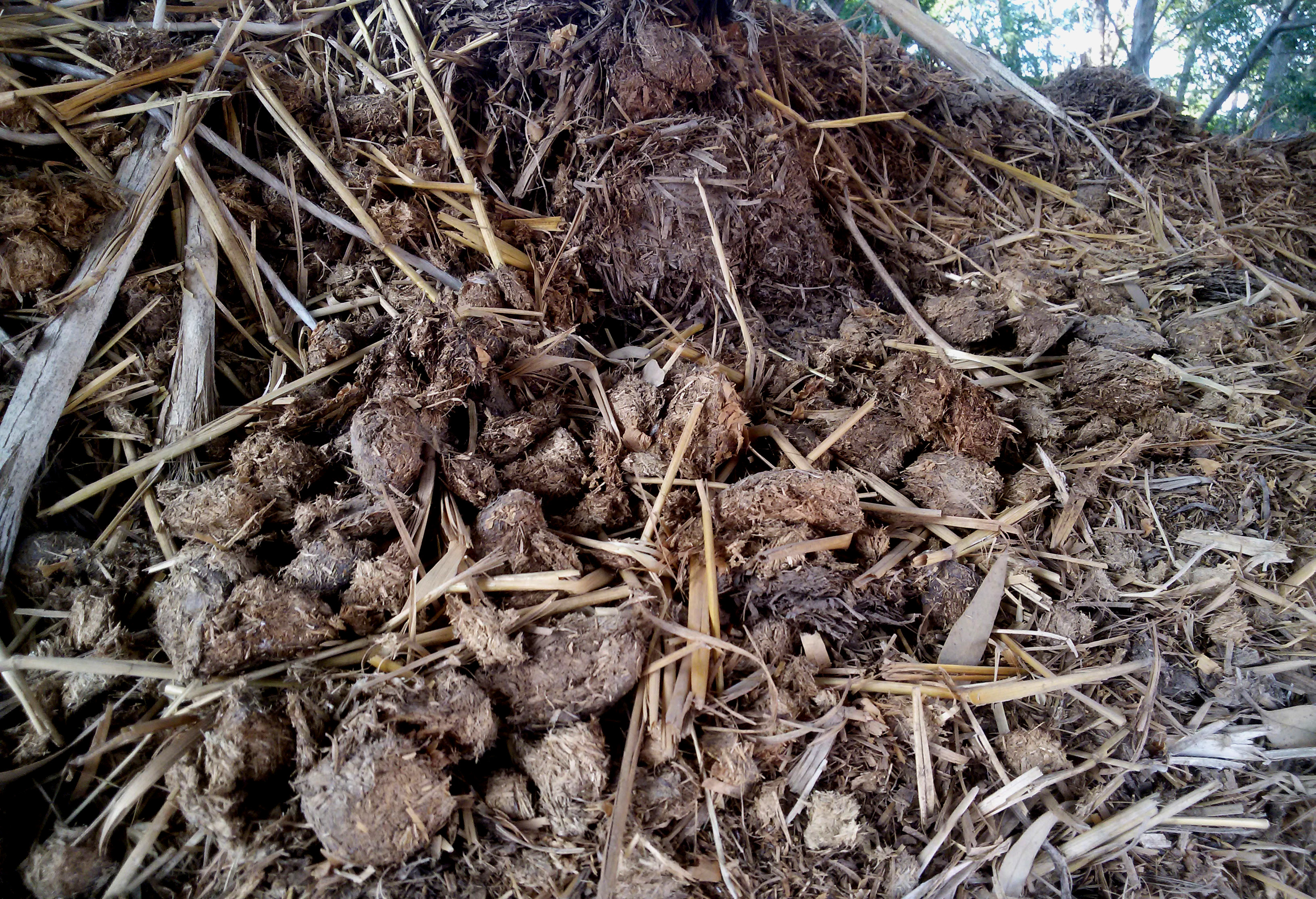 Horse Manure and Hay Detritus at the "Spring Ranch" in Gan Haim, Israel